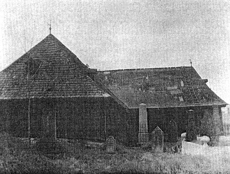 The old ruined wooden church in Miskolc, Hungary, 1930s